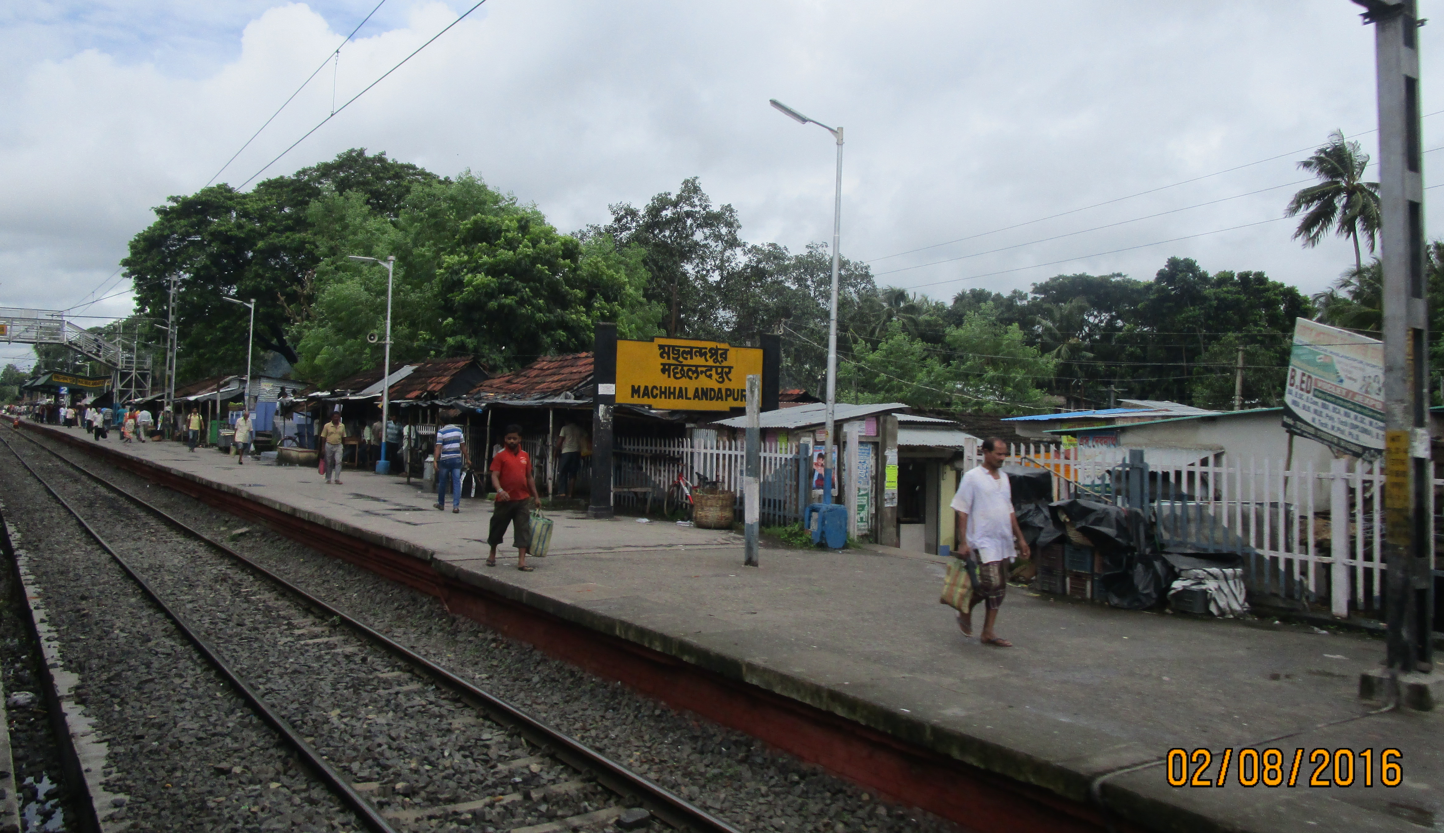 Maslandapur railway station